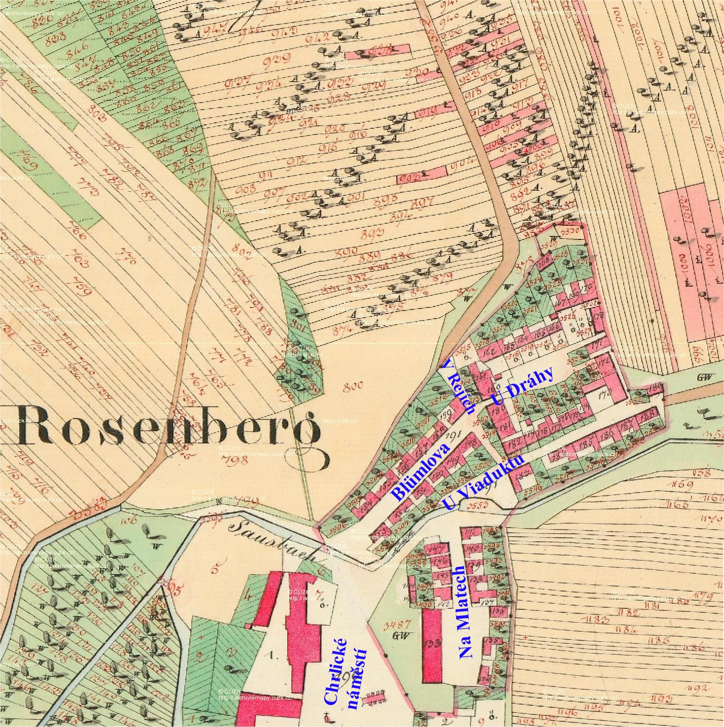 Cadastral map of former municipality of Roznberk/Růžový in current city district Brno-Chrlice.